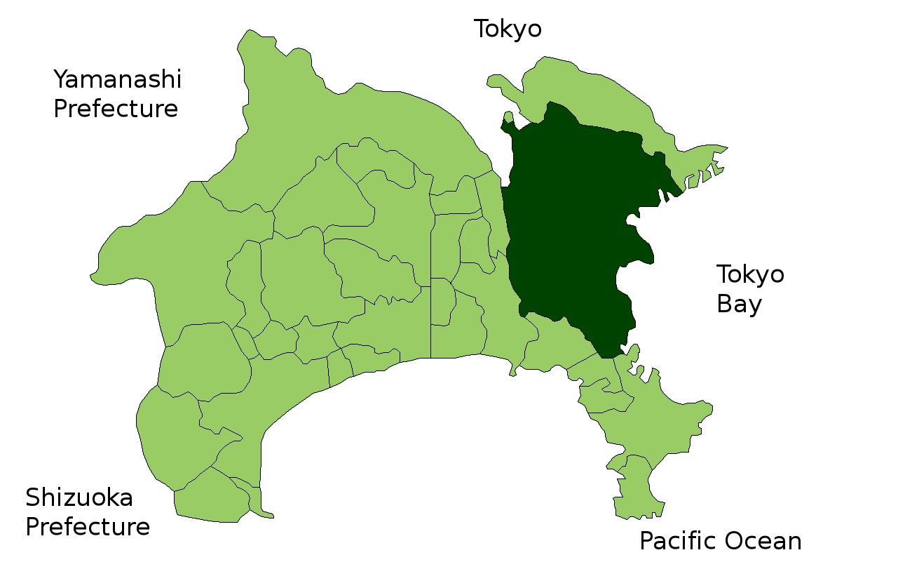 Location Map of Yokohama in Kanagawa Prefecture, Japan